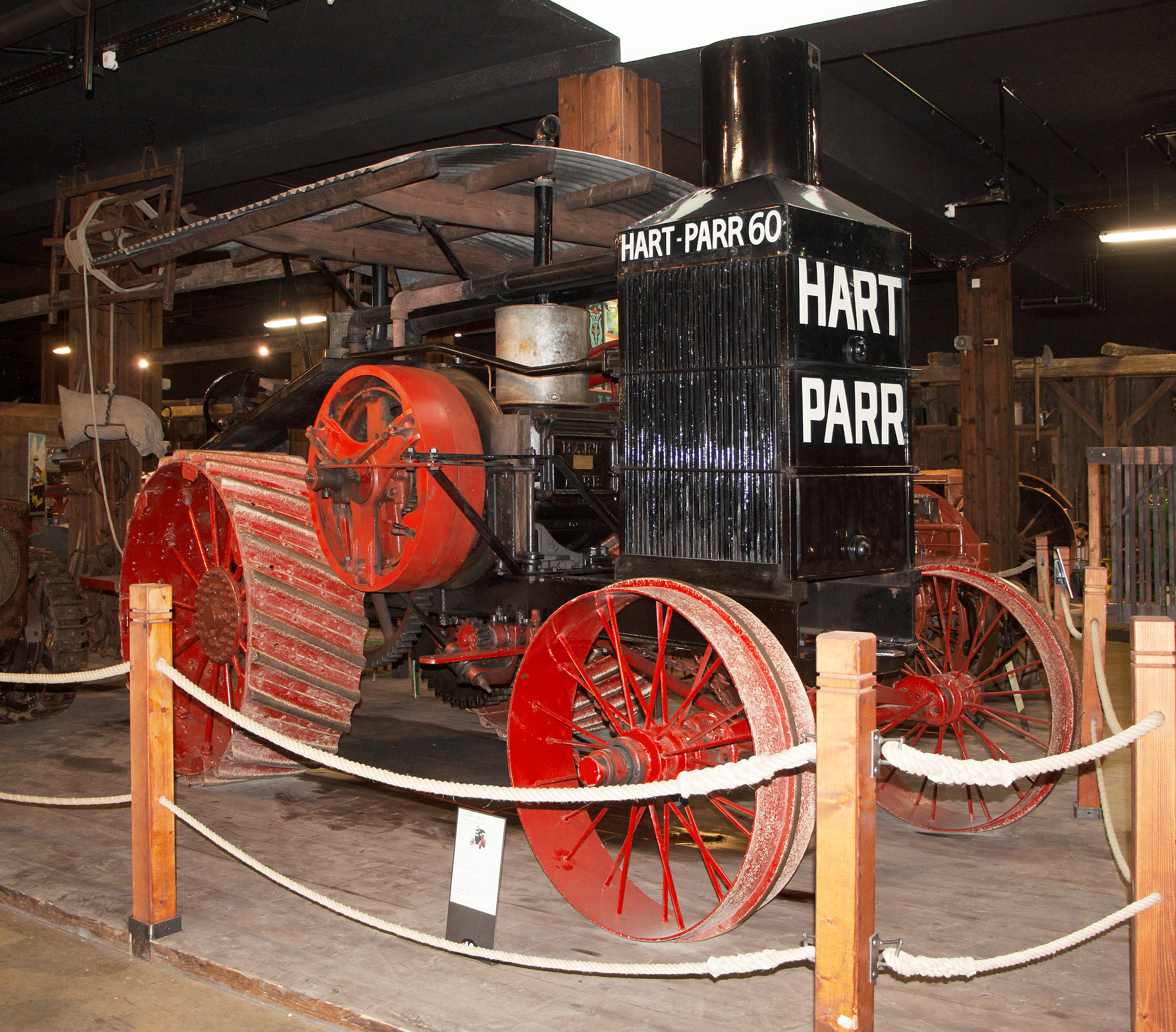 Hart-Parr 30/60 (called "Old Reliable"), Hart-Parr Gasoline Engine Company, Charles City, Iowa, USA, 1916.Cylinder: 2 Engine displacement: 38600 ccmHP: 60Weight: 9500 kgTraktormuseum Bodensee, Gebhardsweiler, Uhldingen-Mühlhofen,Germany